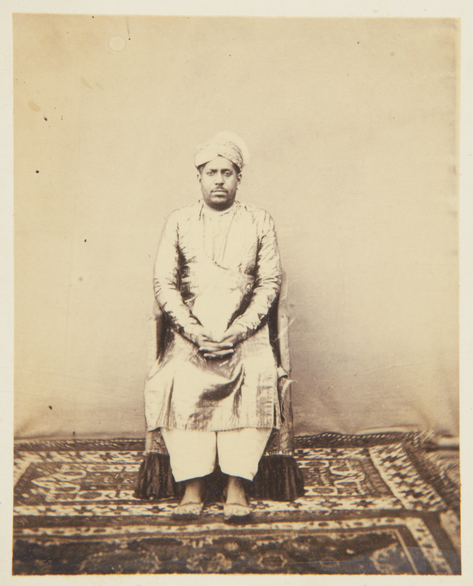 Photograph of Ayilyam Thirunal Rama Varma, Rajah of Cochin, seated in a full length portrait. He faces the viewer and wears a shiny tunic and turban. On the floor are laid decorative rugs.